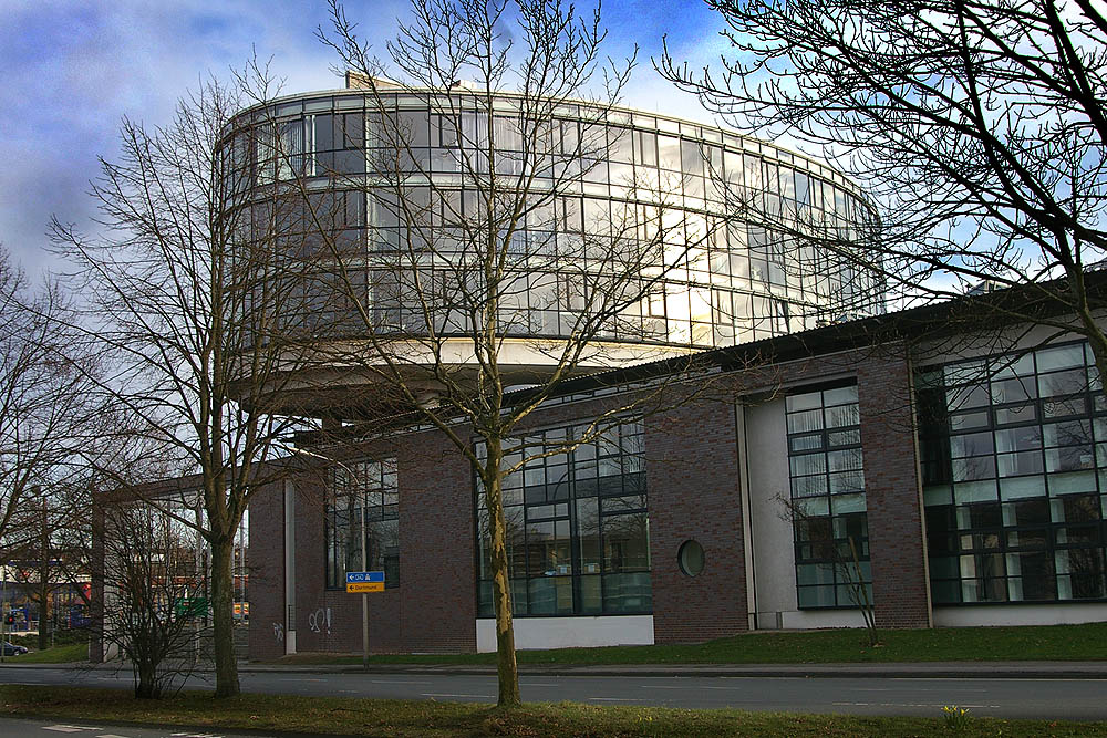 Stadtwerke Witten headquarters in Witten